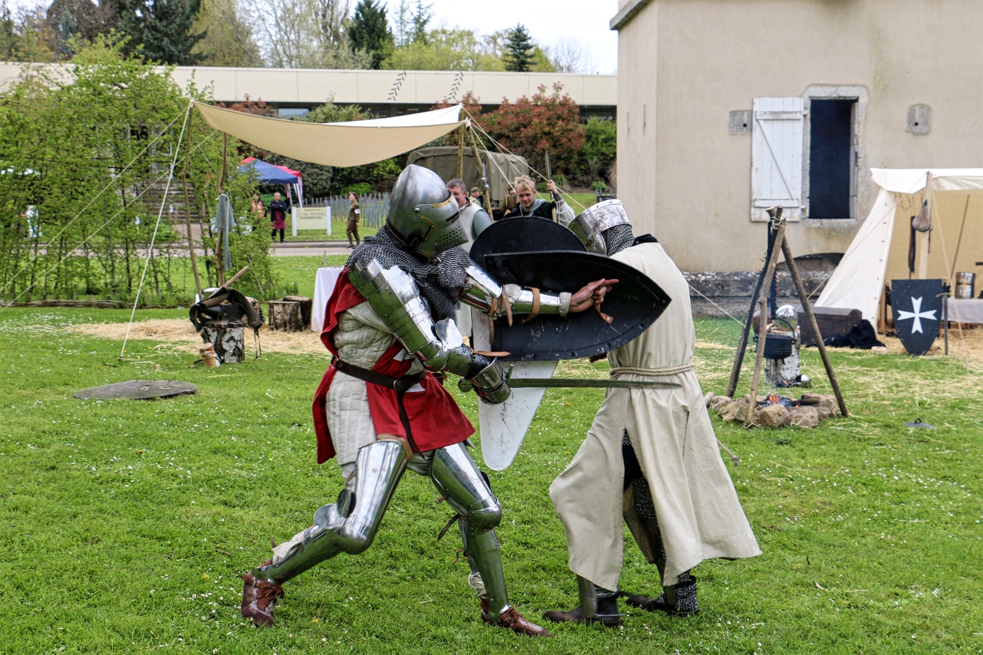 combat médiévaux